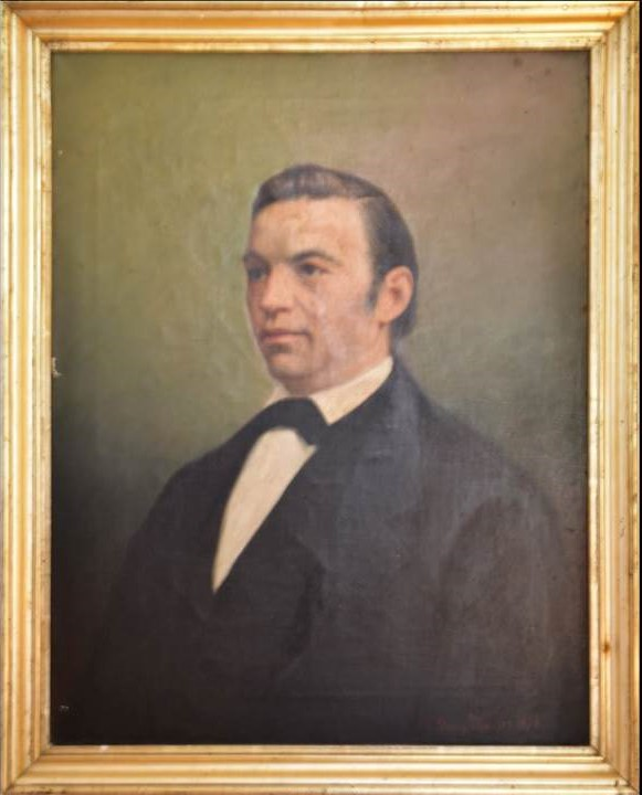 Dr. Melchior Wyrsch (February 27, 1817 - May 30, 1873) was Nidwalden's fist National Councillor, Nidwalden's President of its Court and its Governor.